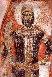 Serbian king Marko Kraljević, second half of the XIV century, fresco from Marko`s monastery near Skoplje, Republic of Macedonia